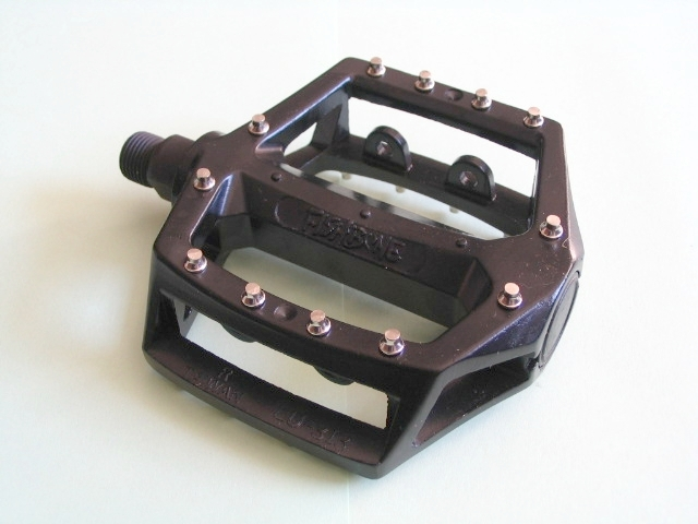 Platform pedal with pins